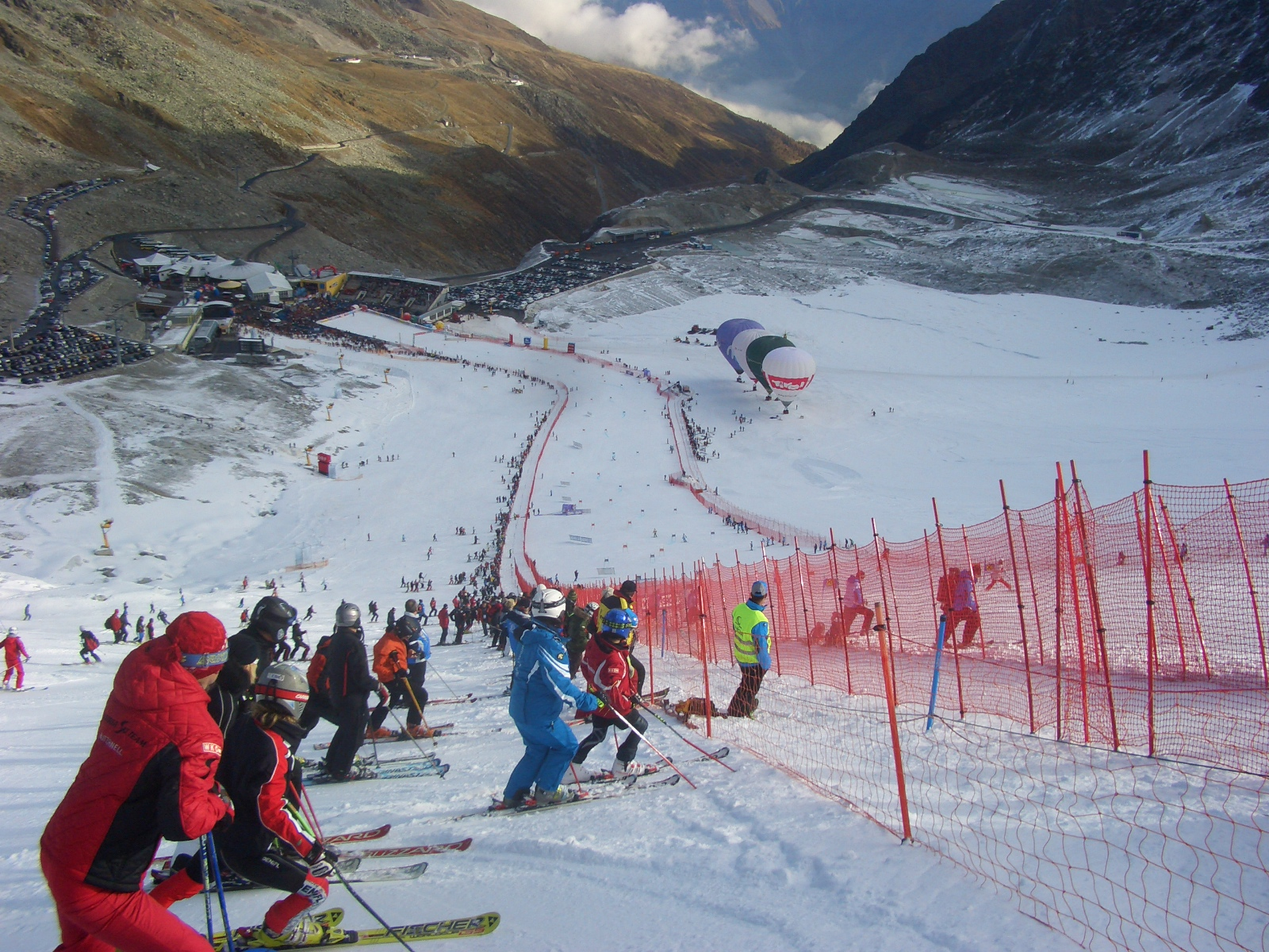 The very first World Cup race of this season, the Ladies GS in Sölden